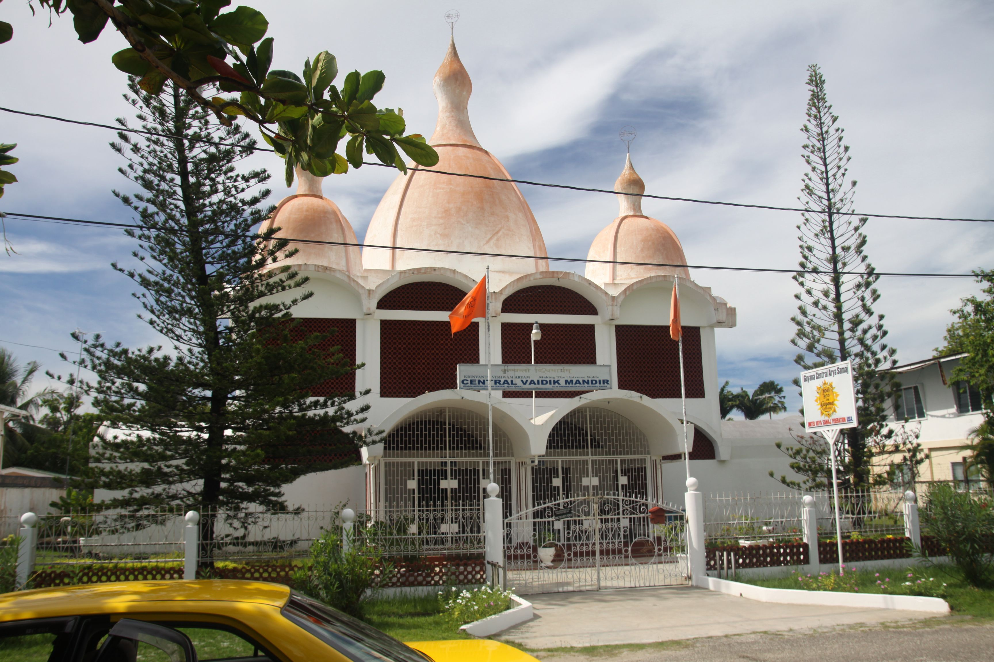 Main mandit of the Guyanese Arya Samaj